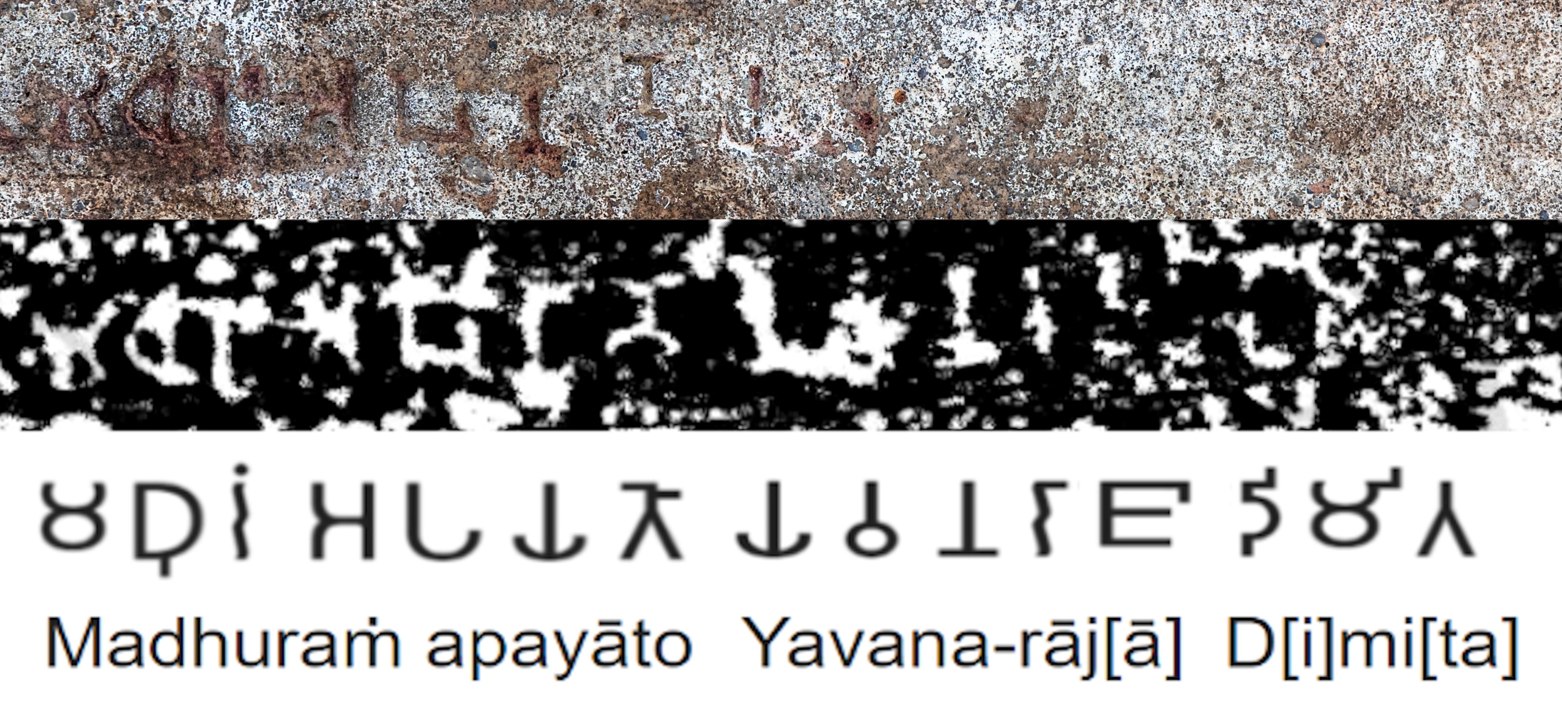 Hathigumpha inscription (2020) Yavana Dimita detail